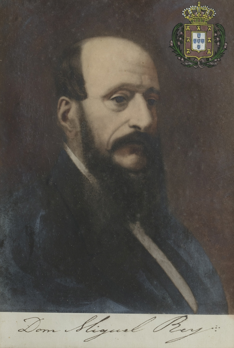 King Michael I of Portugal, early 20th-century coloured lithograph.